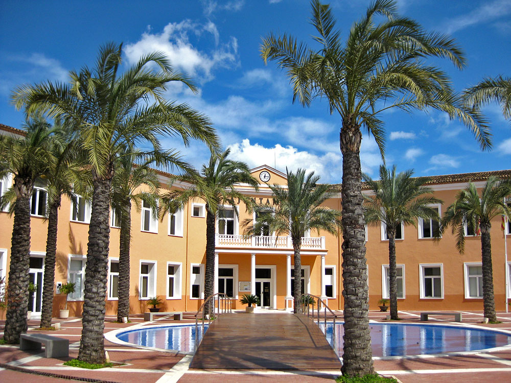 El Verger townhall (old school house), Valencian Country, Spain. Ajuntament del Verger (antic col·legi), Marina Alta, País Valencià.